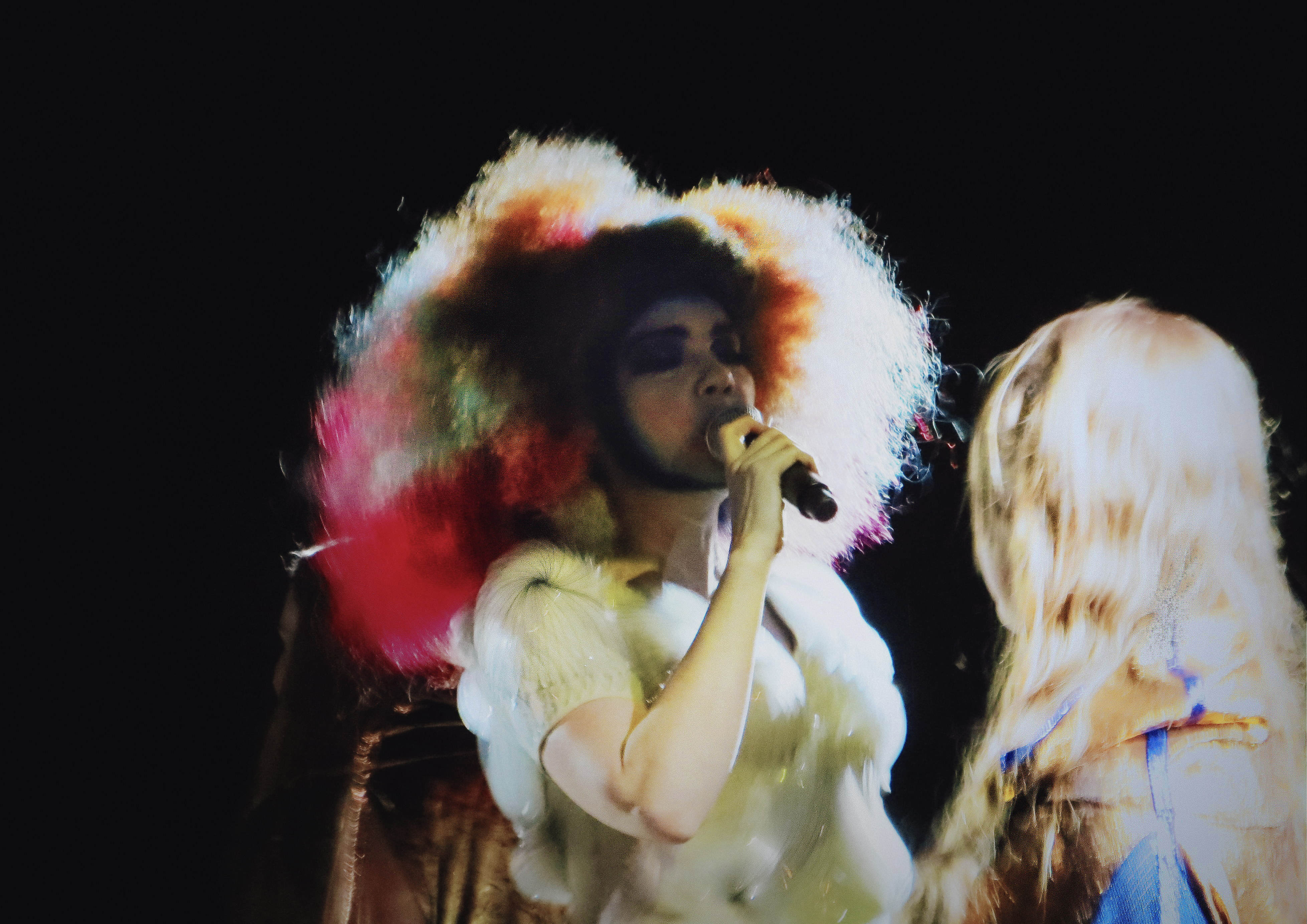 The Icelandic singer-songwriter Björk performs live during the second night of the Biophilia Tour at the Cirque en Chantier in Paris, on 27 February 2013.